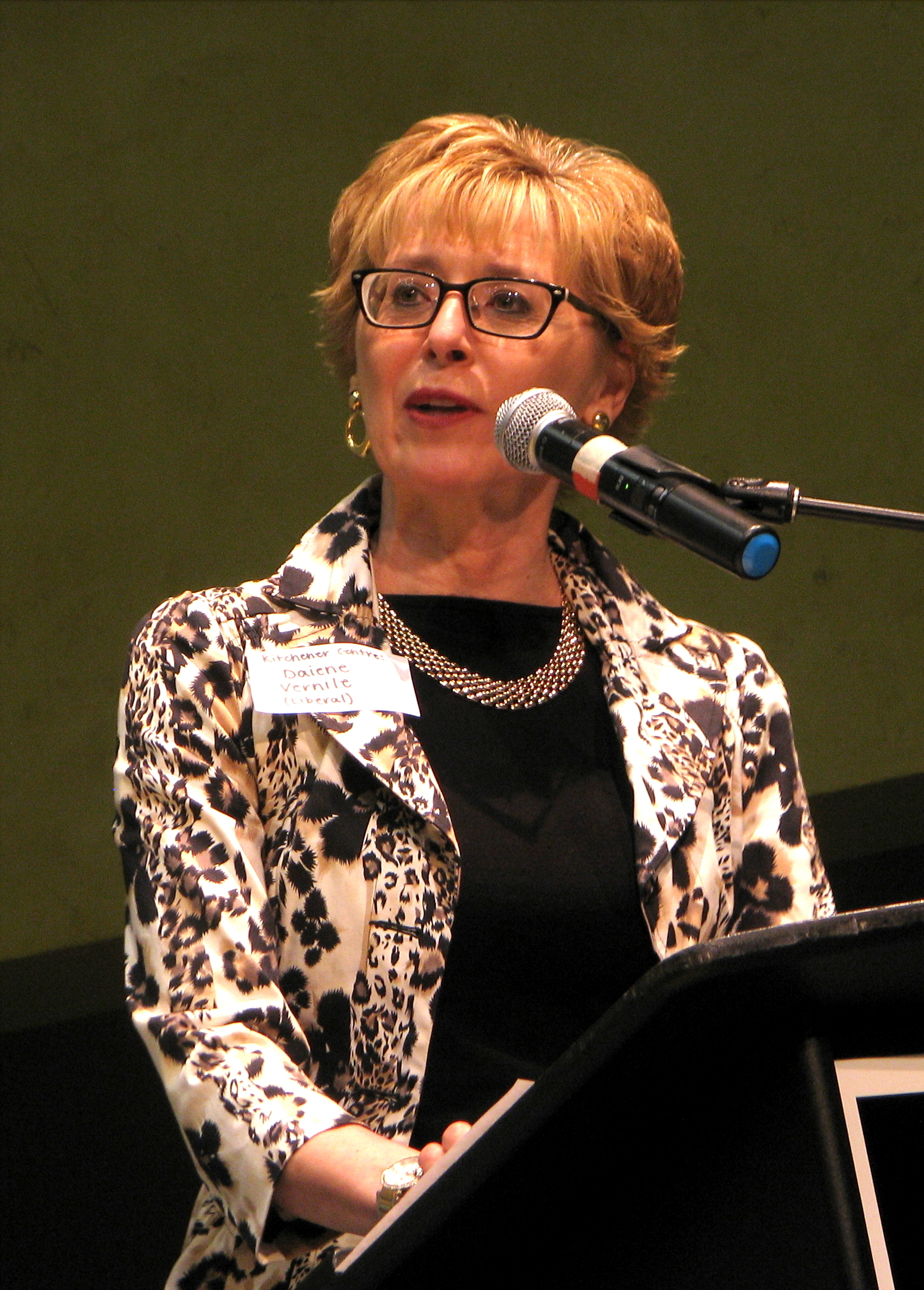 Speaking at the Waterloo Region wide All Candidates Event at THE MUSEUM: Cultural Exchange 6.0, during the 2018 Ontario Provincial Election.